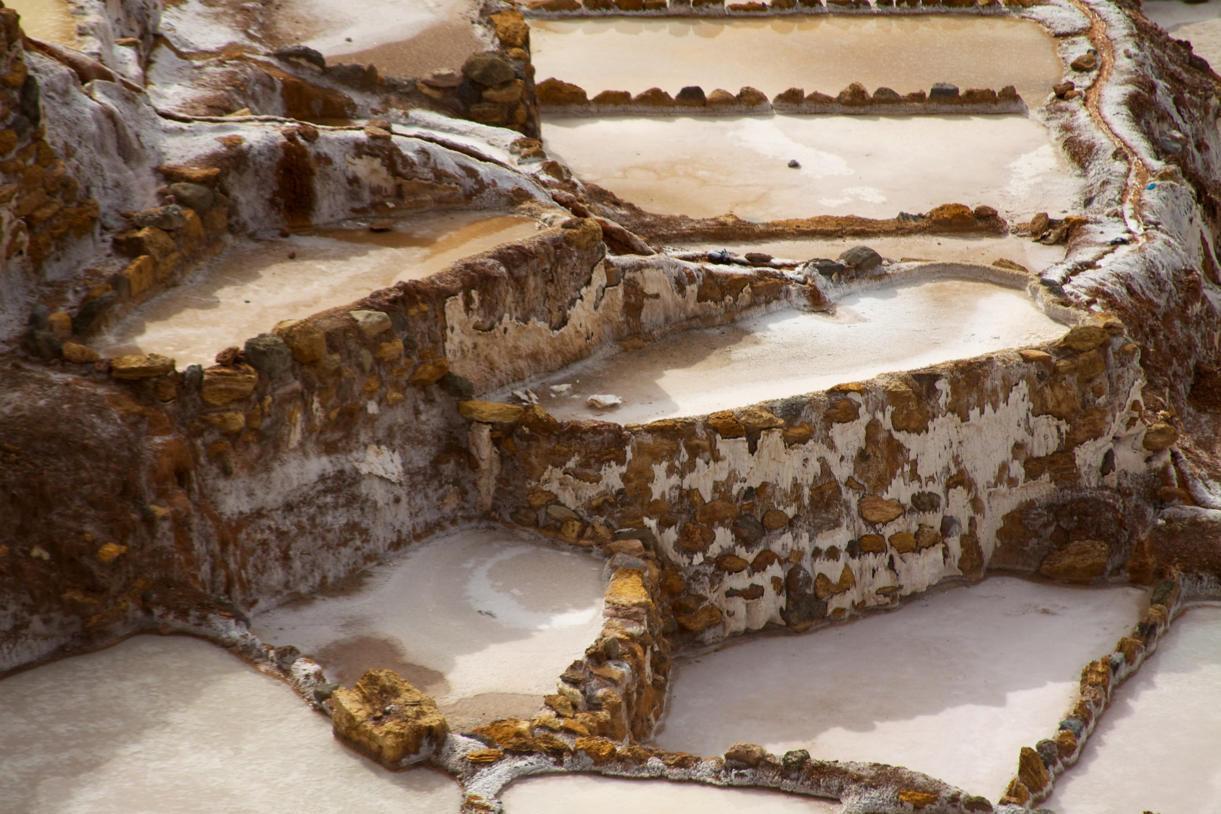 The Salineras salt pans are among the most amazing sights in the Cusco area. Thousands of tiny terraces of white, pink and coffee brown evaporate salty mineral water to produce fine salt. I love the colours and shades and amazing perfection of the system.